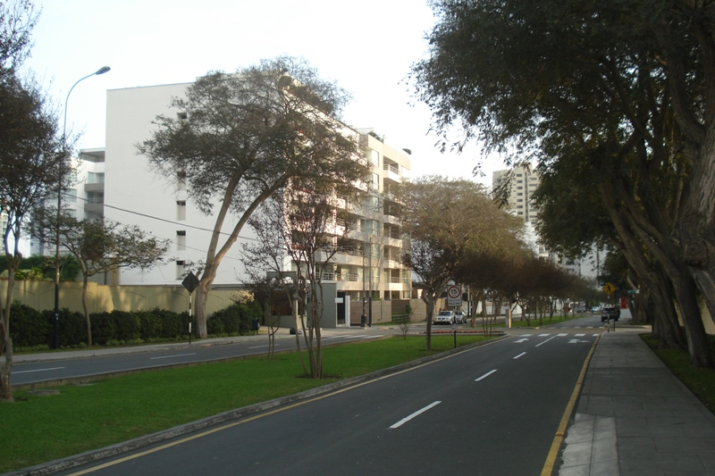 Santo Toribio Avenue in San Isidro (Lima, Peru)